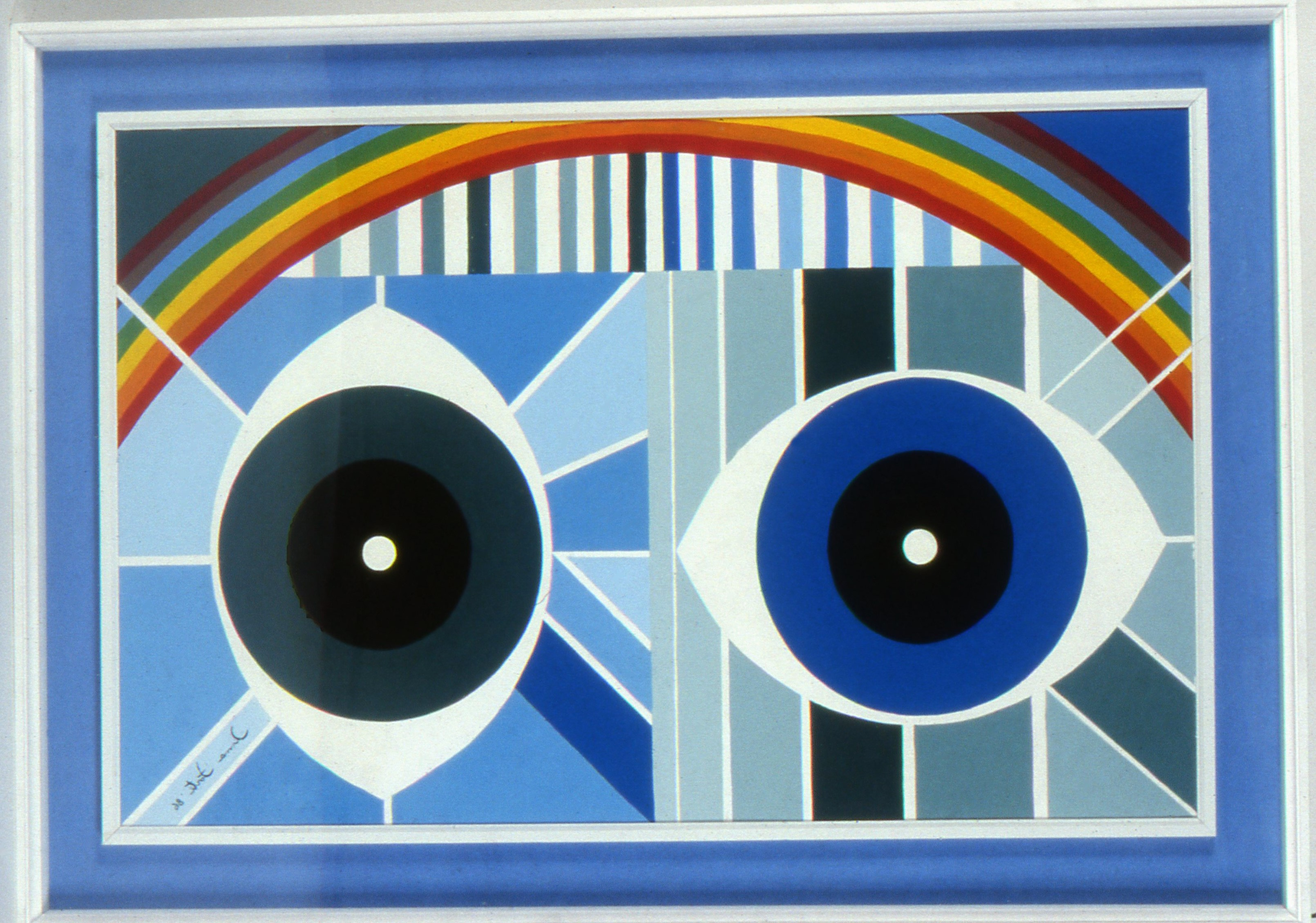 ricerca della verità